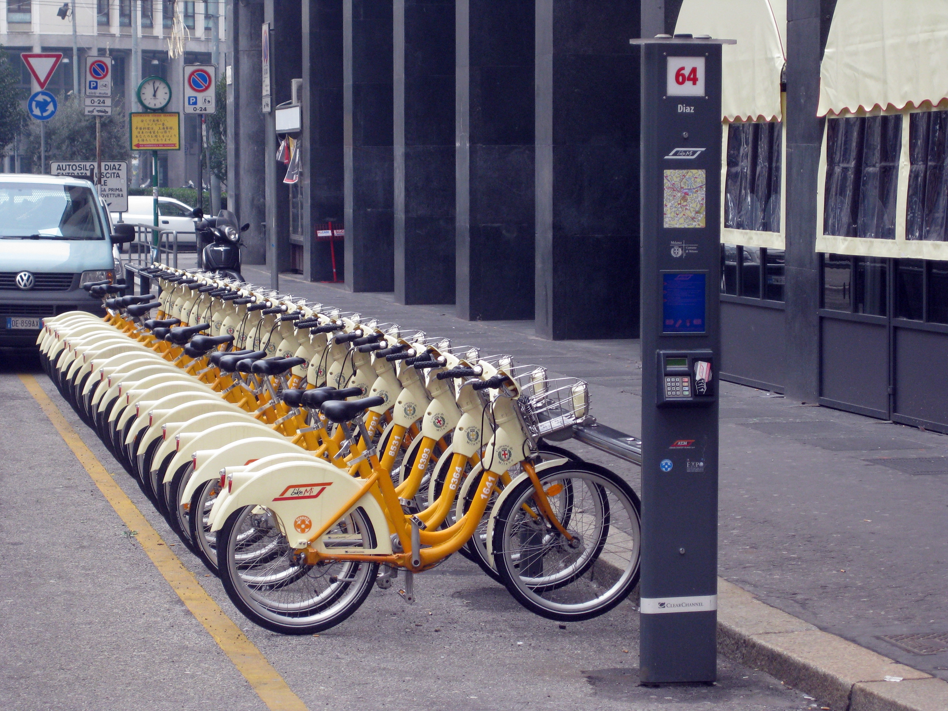 BikeMi bike sharing station in piazza diaz, Milan/Italy